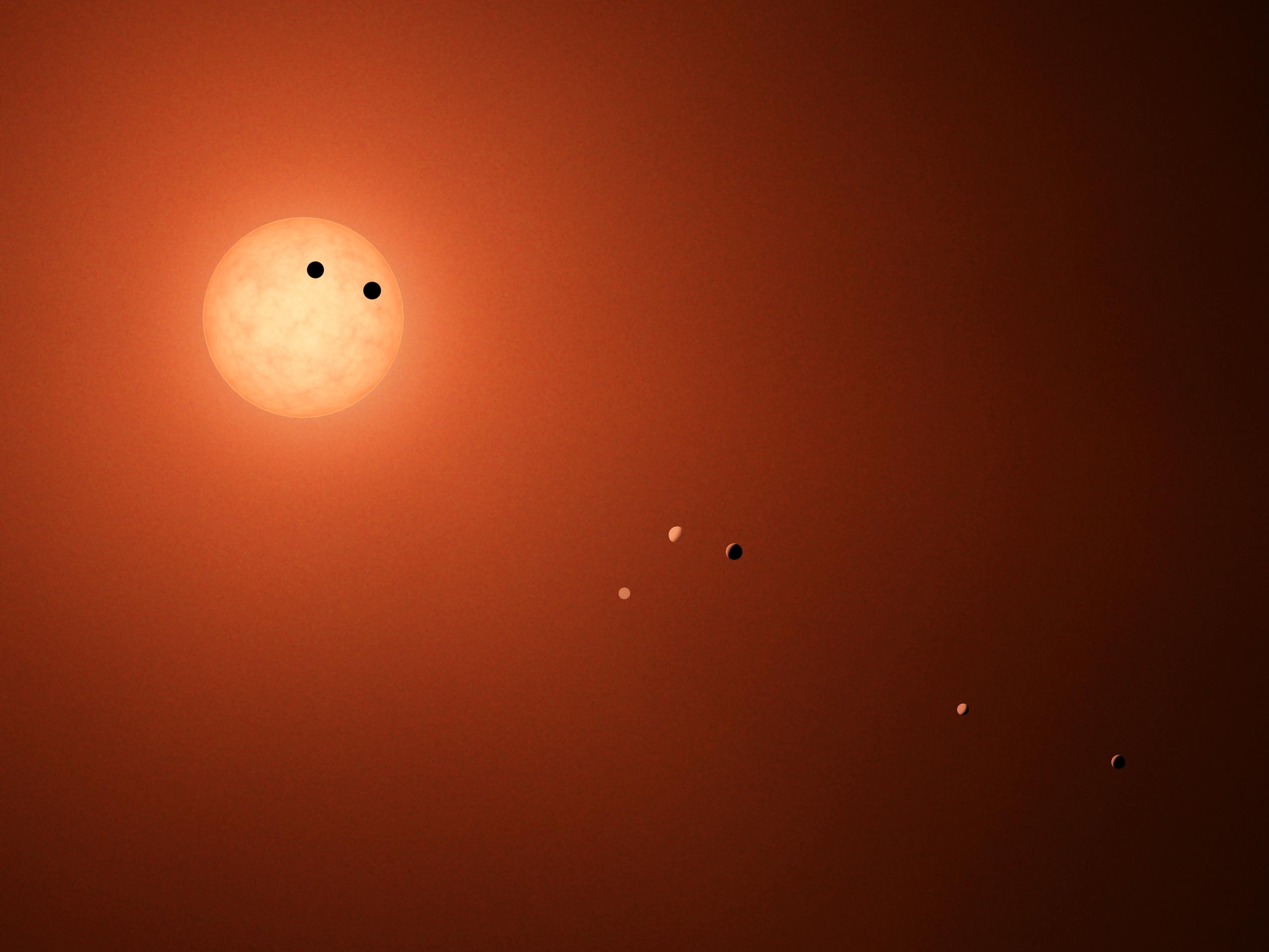 This illustration shows the seven TRAPPIST-1 planets as they might look as viewed from Earth using a fictional, incredibly powerful telescope. The sizes and relative positions are correctly to scale: This is such a tiny planetary system that its sun, TRAPPIST-1, is not much bigger than our planet Jupiter, and all the planets are very close to the size of Earth. Their orbits all fall well within what, in our solar system, would be the orbital distance of our innermost planet, Mercury. With such small orbits, the TRAPPIST-1 planets complete a "year" in a matter of a few Earth days: 1.5 for the innermost planet, TRAPPIST-1b, and 20 for the outermost, TRAPPIST-1h. This particular arrangement of planets with a double-transit reflect an actual configuration of the system during the 21 days of observations made by NASA's Spitzer Space Telescope in late 2016. The system has been revealed through observations from NASA's Spitzer Space Telescope and the ground-based TRAPPIST (TRAnsiting Planets and PlanetesImals Small Telescope) telescope, as well as other ground-based observatories. The system was named for the TRAPPIST telescope. NASA's Jet Propulsion Laboratory, Pasadena, California, manages the Spitzer Space Telescope mission for NASA's Science Mission Directorate, Washington. Science operations are conducted at the Spitzer Science Center at Caltech, also in Pasadena. Spacecraft operations are based at Lockheed Martin Space Systems Company, Littleton, Colorado. Data are archived at the Infrared Science Archive housed at Caltech/IPAC. Caltech manages JPL for NASA. For more information about the Spitzer mission, visit and